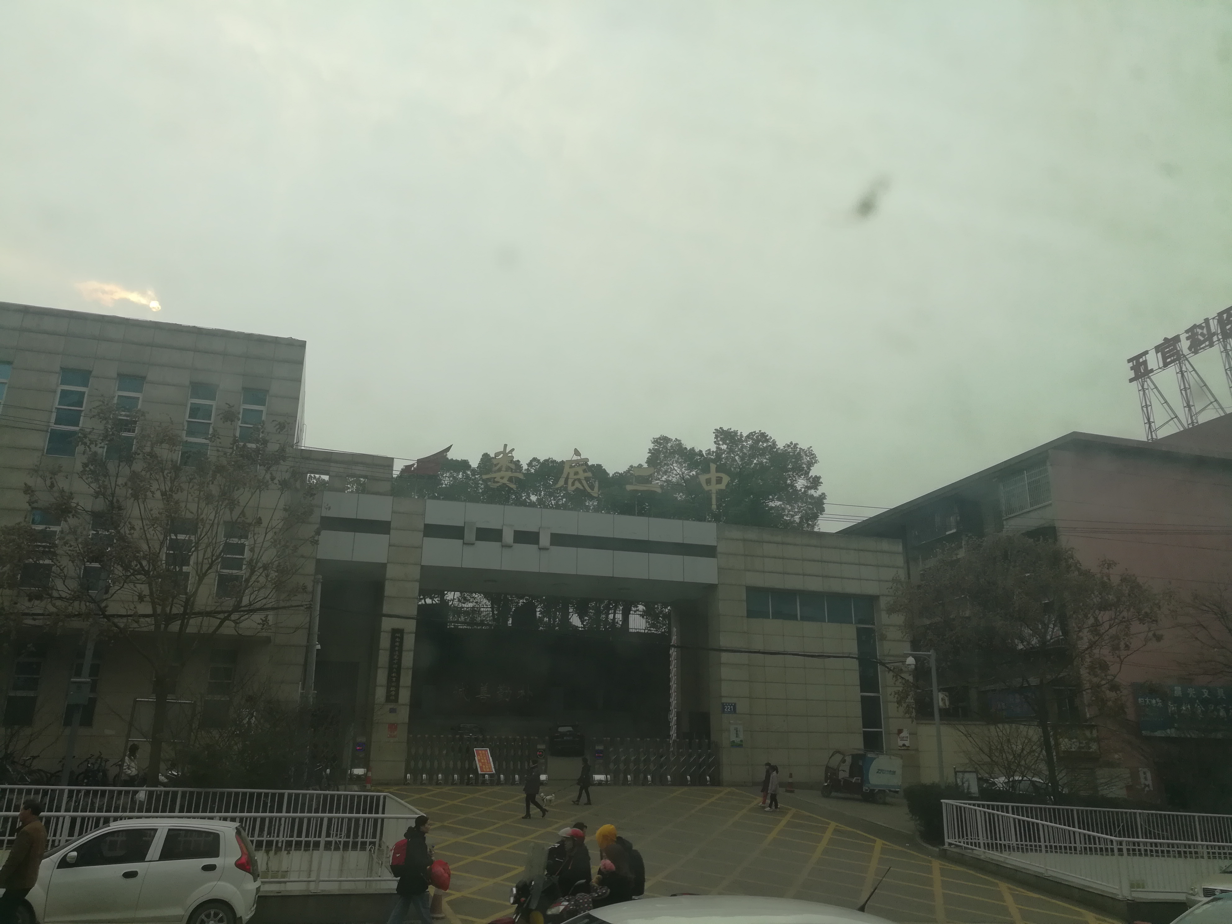 The Loudi No. 2 High School in downtown Loudi, Hunan, China.